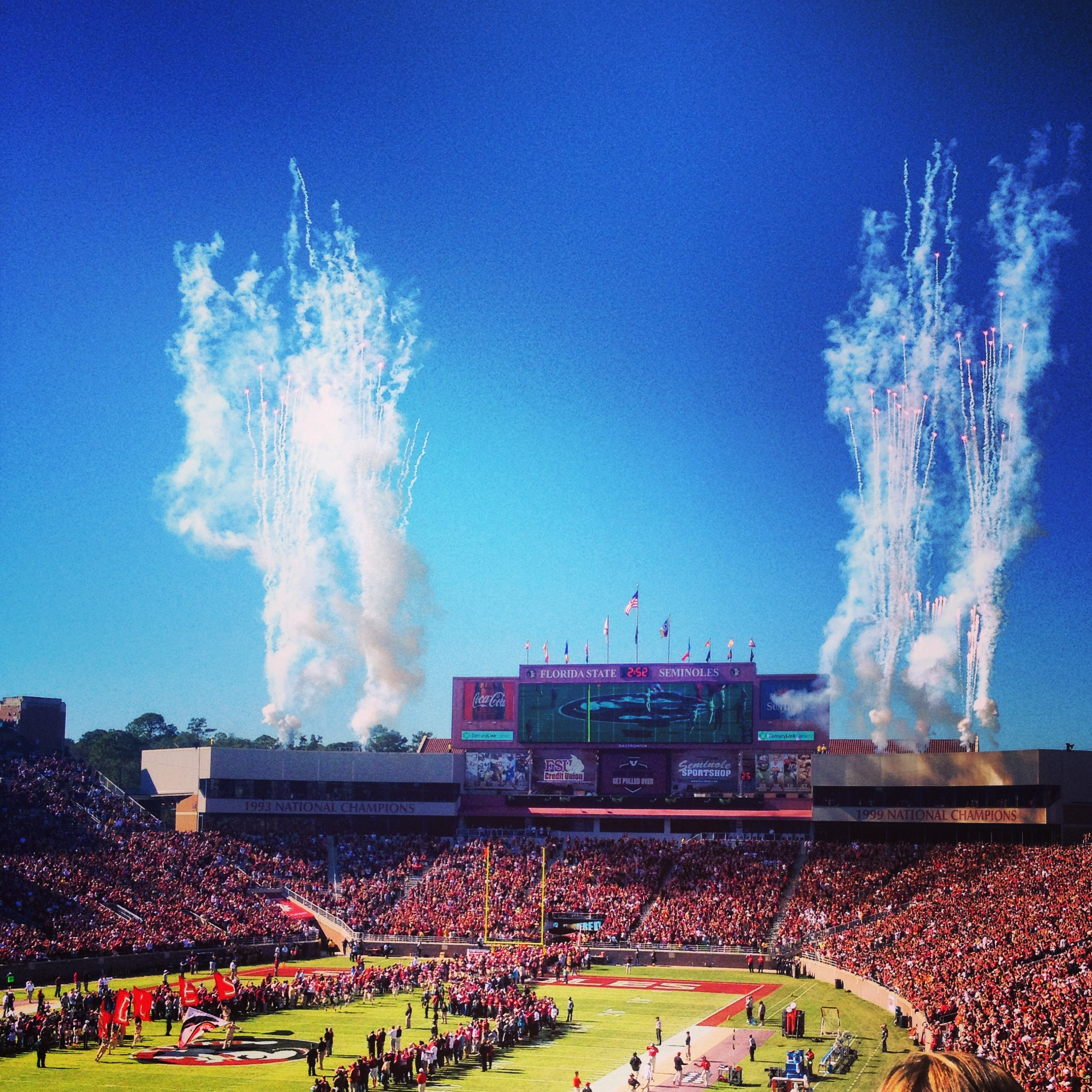 Doak Campbell Stadium